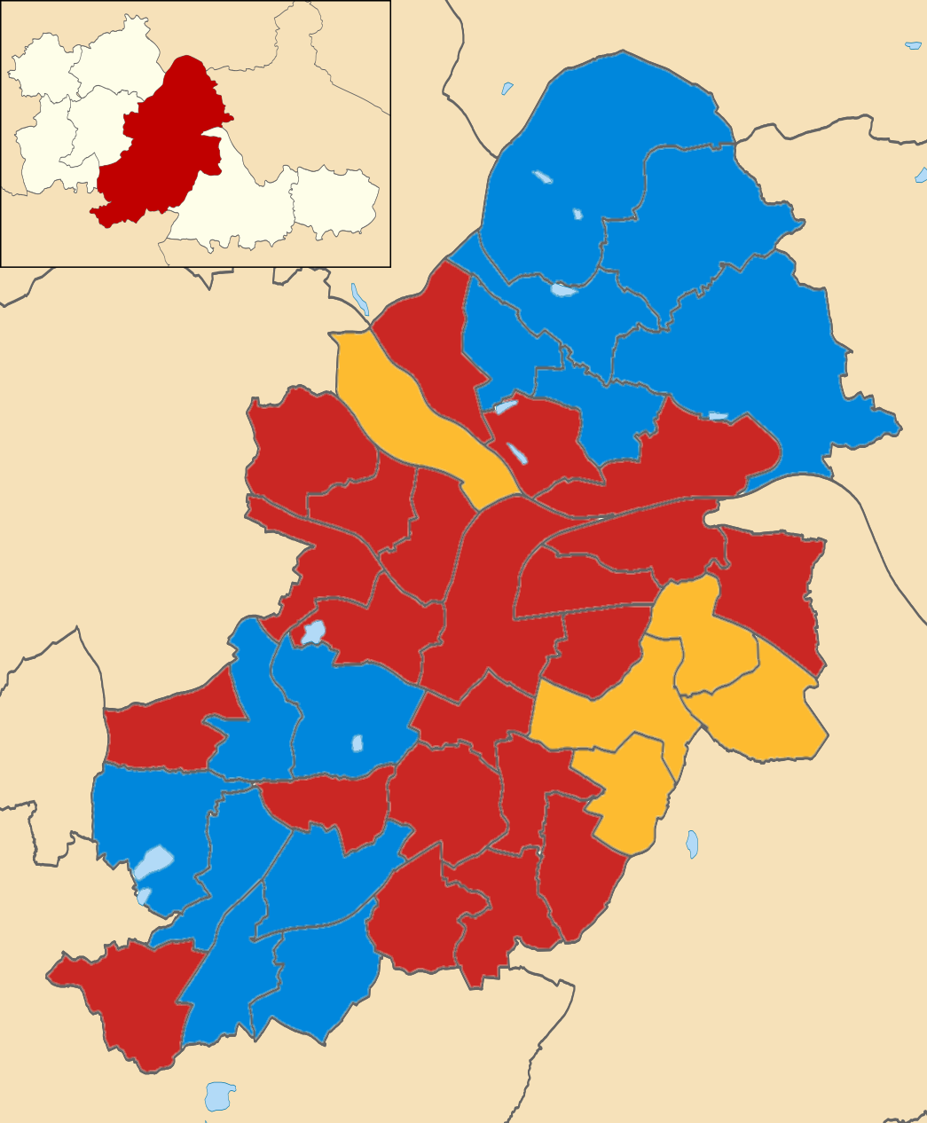 Results of the 2014 local elections in Birmingham Colours: Conservative Labour Liberal Democrat